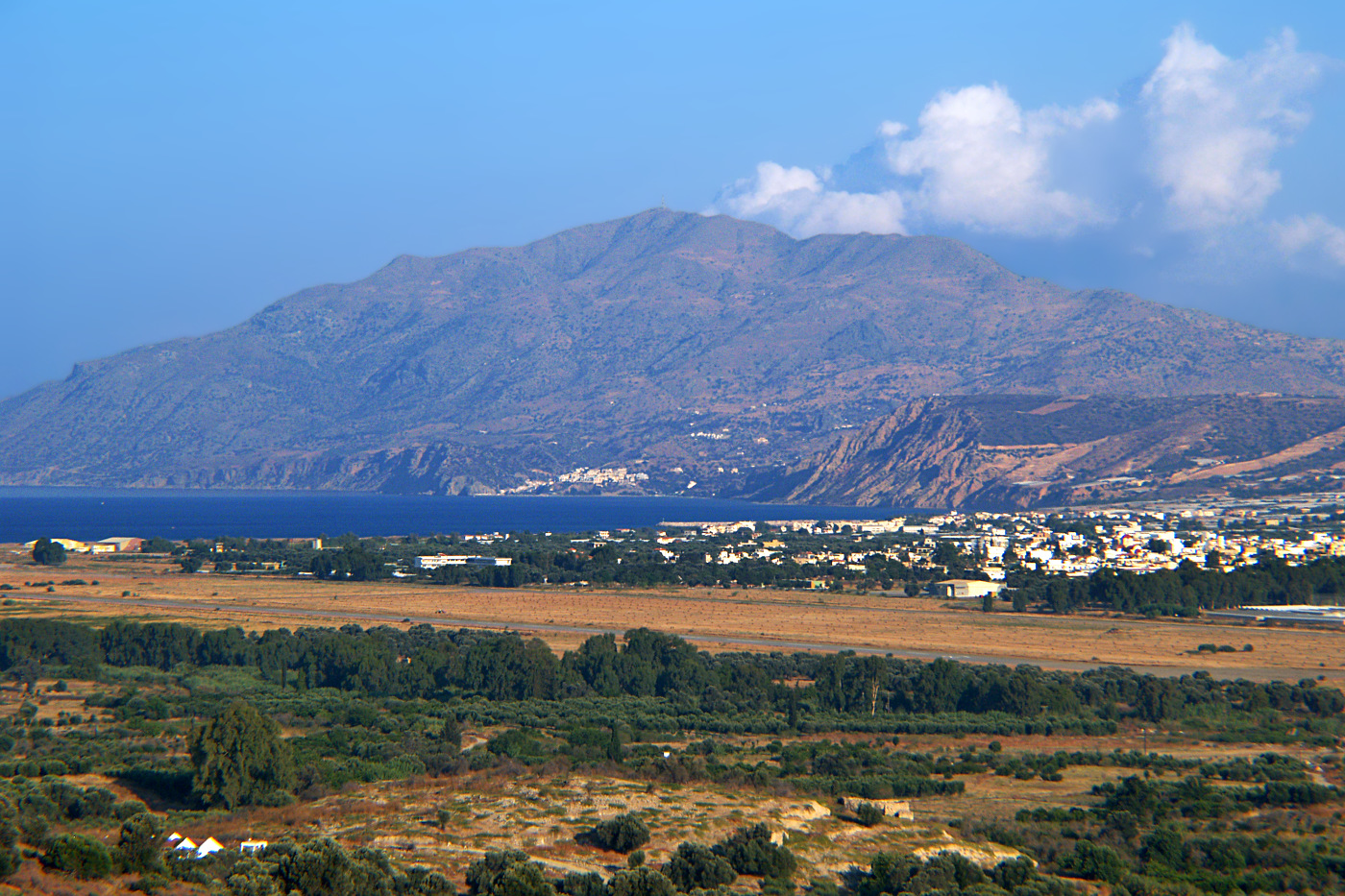 View of the Messara plain, Tymbaki and Agia Gallini from the archaeological site of Agia Triada